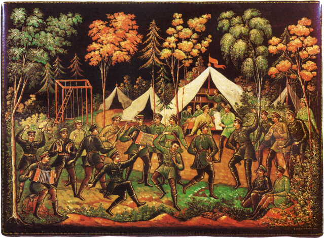 Dancing Red Army soldiers. Miniature on a casket.